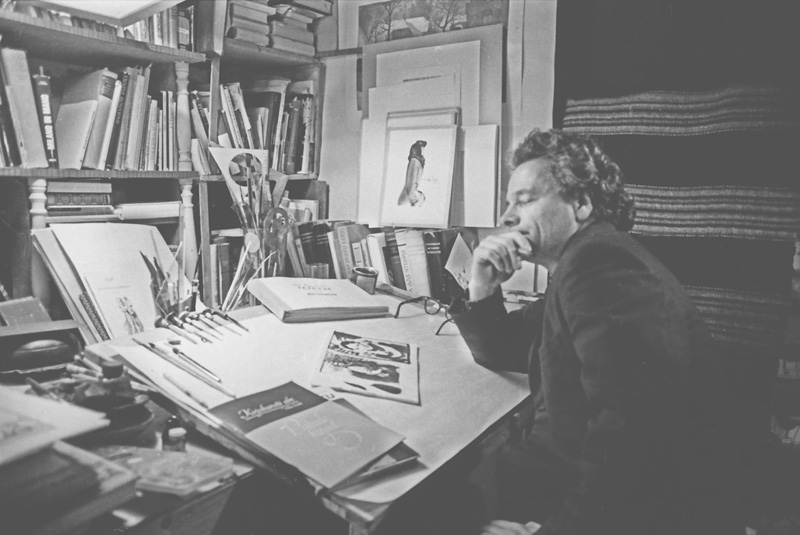 "Bogdesco Ilia Trofimovici - the Moldavian schedule" (70th years).